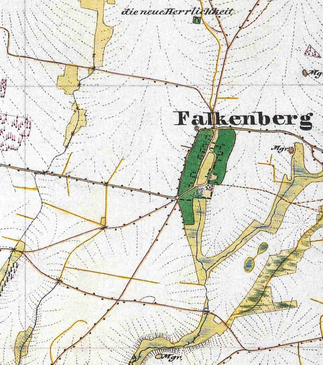 Village Falkenberg, detail from the Urmesstischblatt (prototype planetable sheet at 1:25,000) Sheet 3850 Kossenblatt, drawn in 1846. Today, Falkenberg is a part of the municipality Tauche in the District Oder-Spree, Brandenburg, Germany.